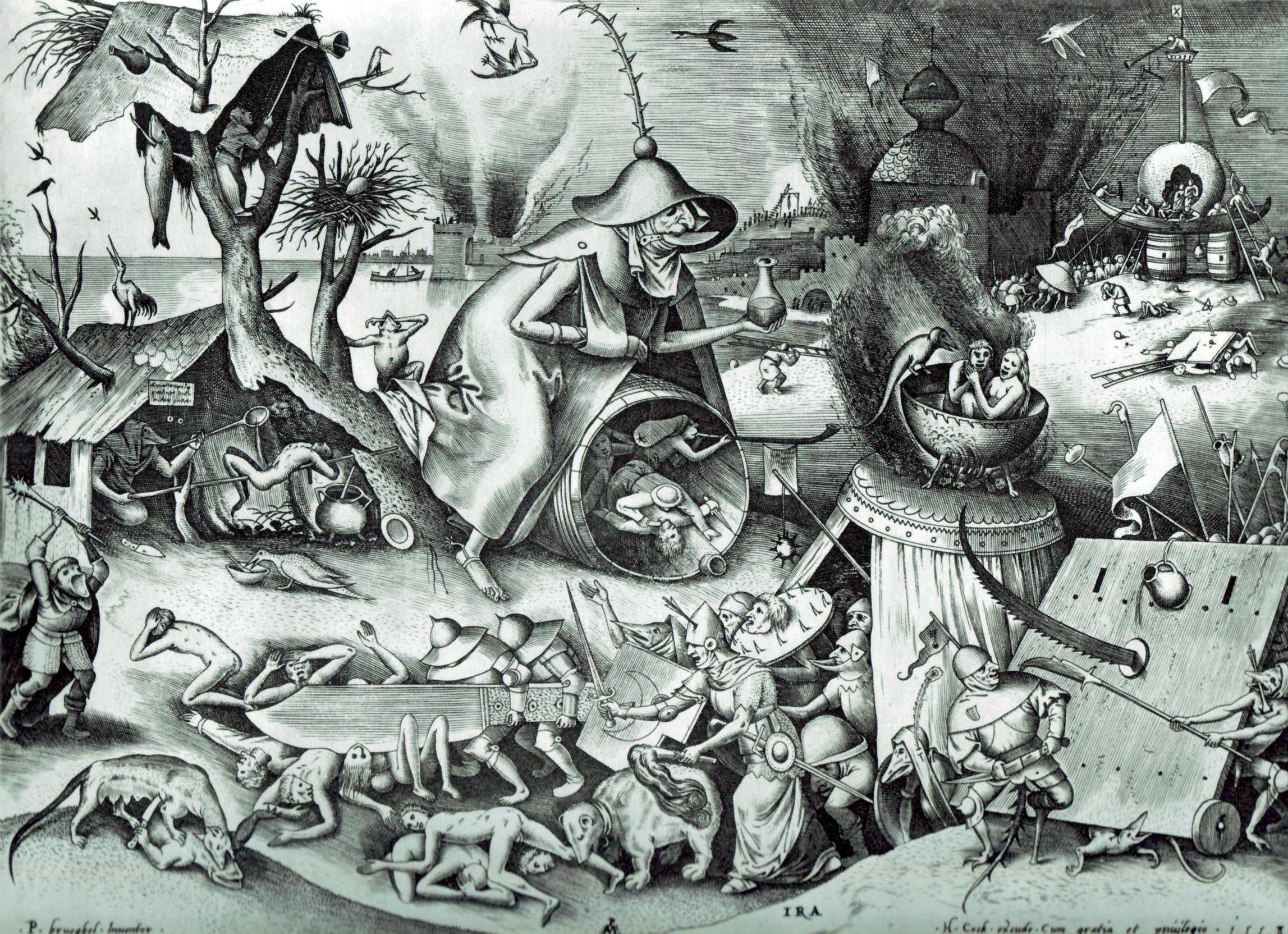 Pieter Bruegel the Elder: The Seven Deadly Sins or the Seven Vices - Anger